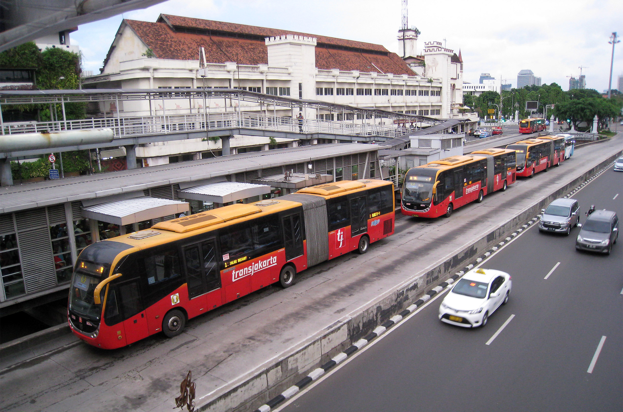 Transjakarta Zhongtong articulated buses at Harmoni Central Busway, Central Jakarta, Indonesia.